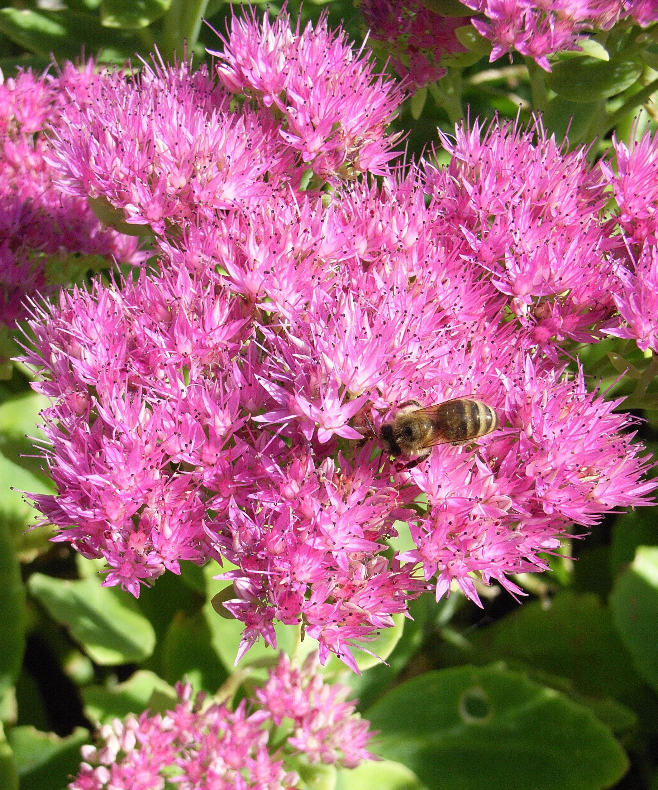 Hylotelephium spectabile (Syn. Sedum spectabile)